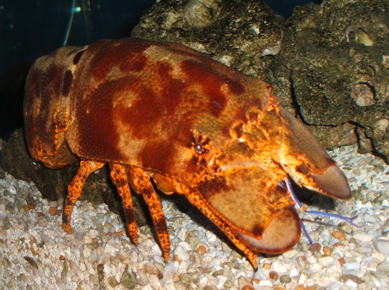 Slipper lobster (Parribacus antarcticus) at the National Zoo in Washington DC.